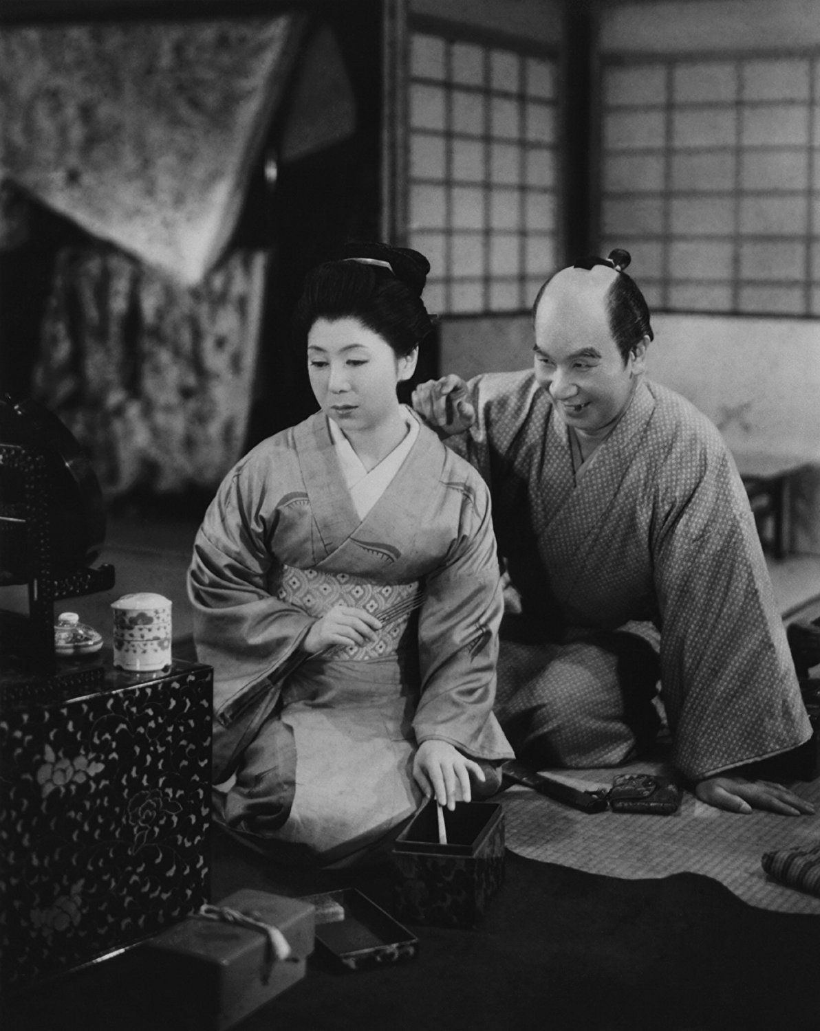 Kinuyo Tanaka and Eitarō Shindō in Saikaku ichidai onna (1952) directed by Kenji Mizoguchi